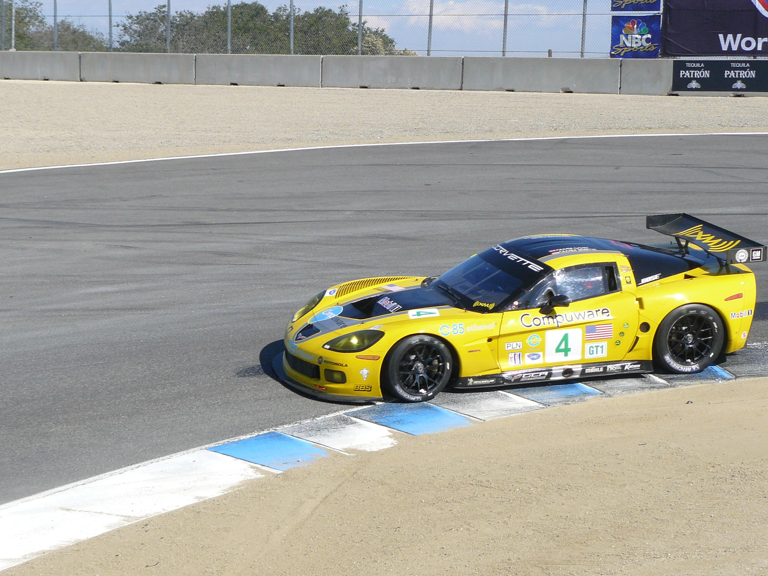 No.4 Corvette Racing Chevrolet Corvette C6-R on the Corkscrew - ALMS Laguna Seca, Monterey, California, USA. October 2008. LMGT1 Class winners